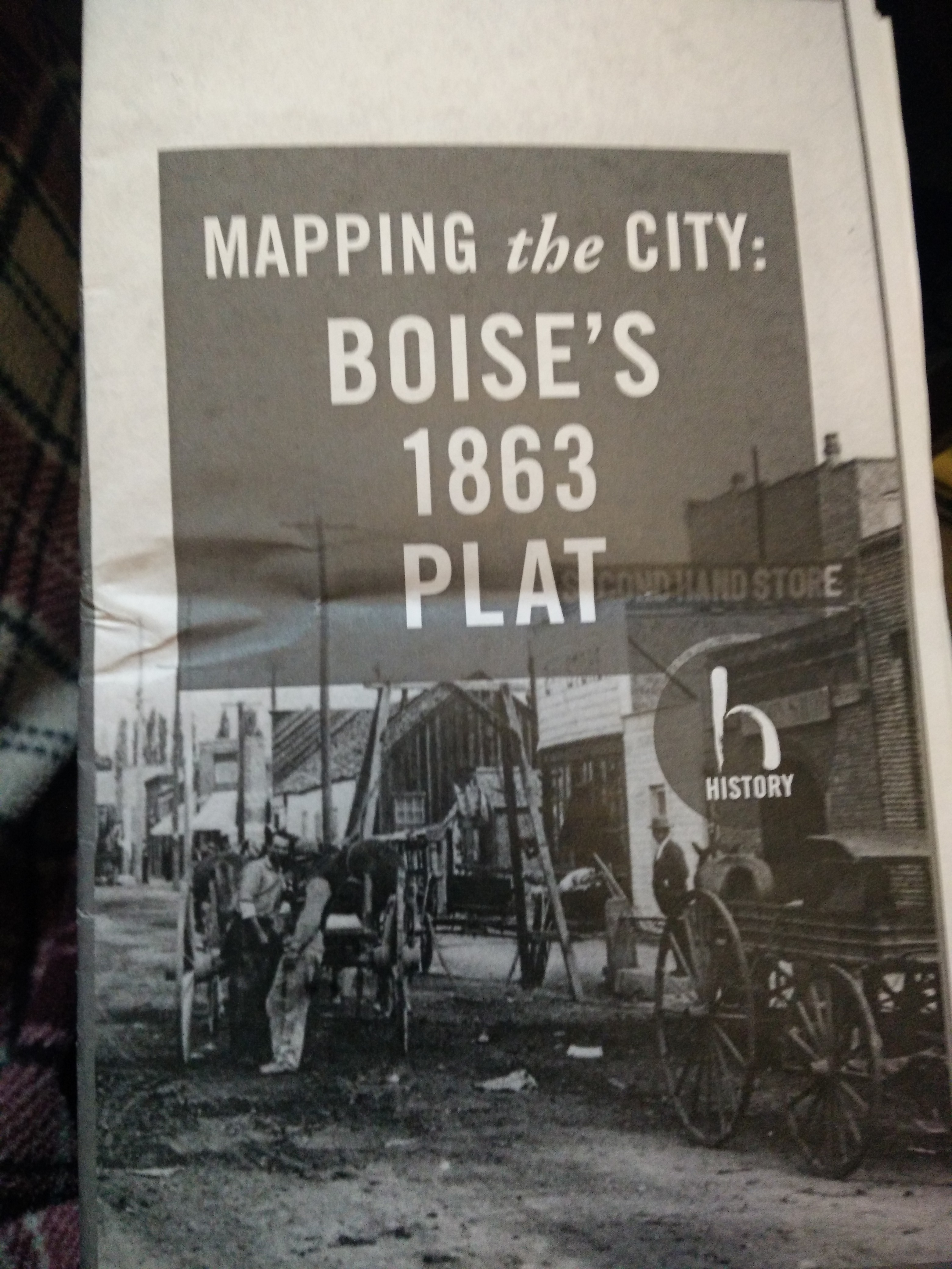 This Sesqui-Shop pamphlet was produced for a walking tour of Boise's original ten blocks.